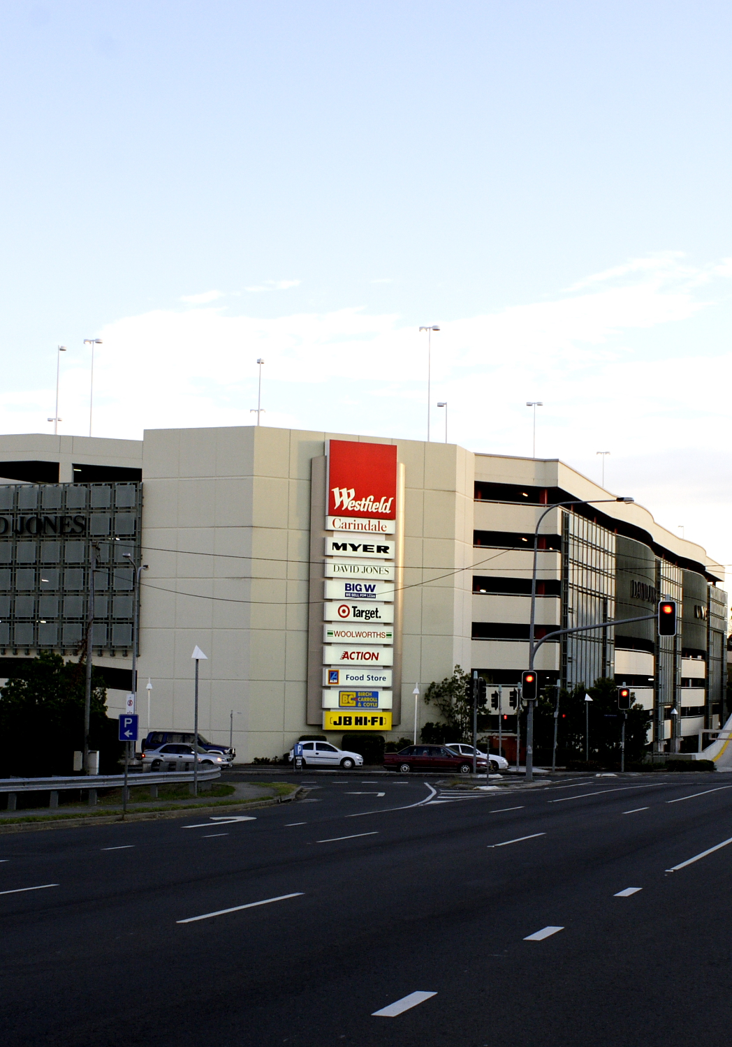 Westfield Carindale, taken from Creek Road.